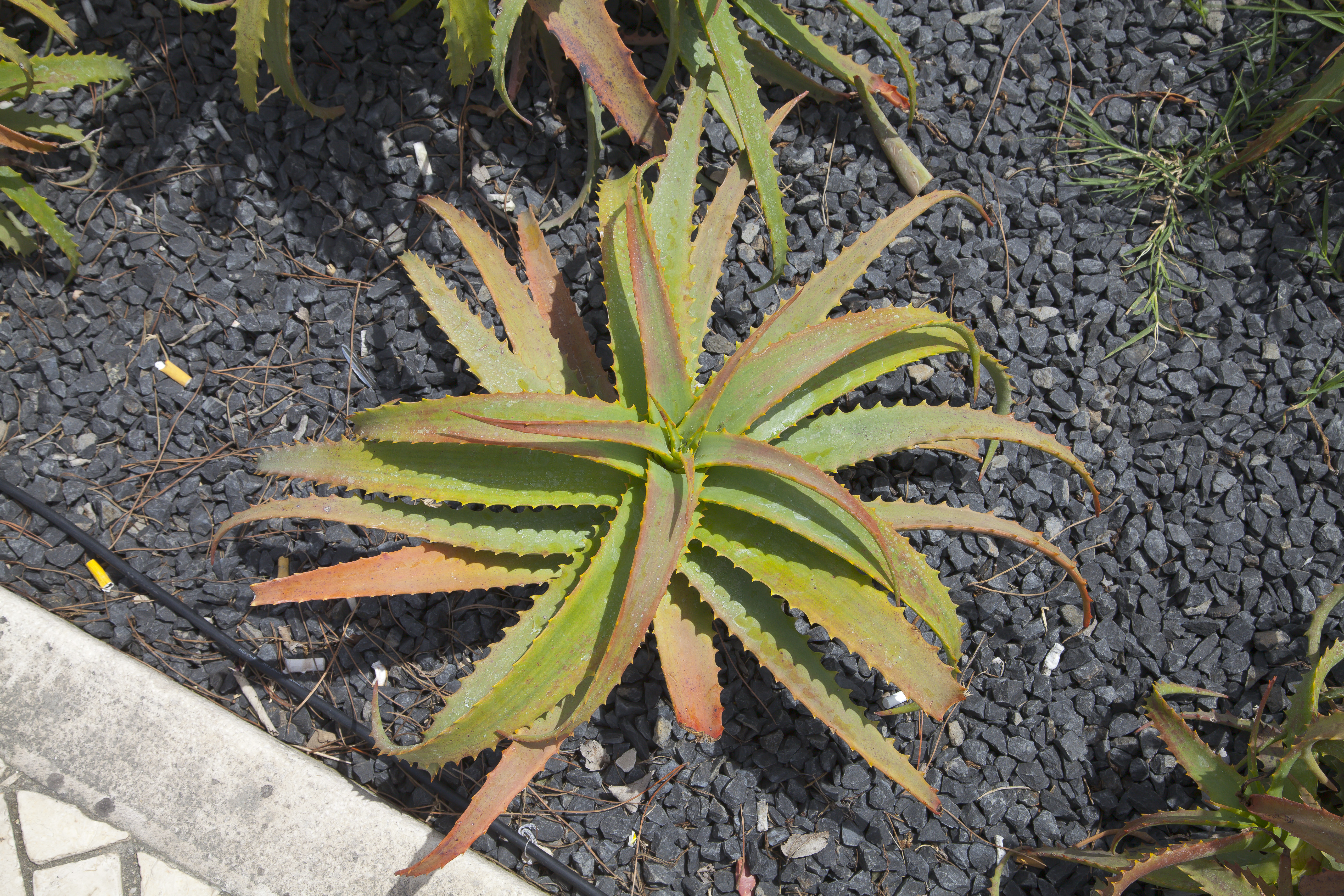 Aloe arborescens, Lisbon, Portugal